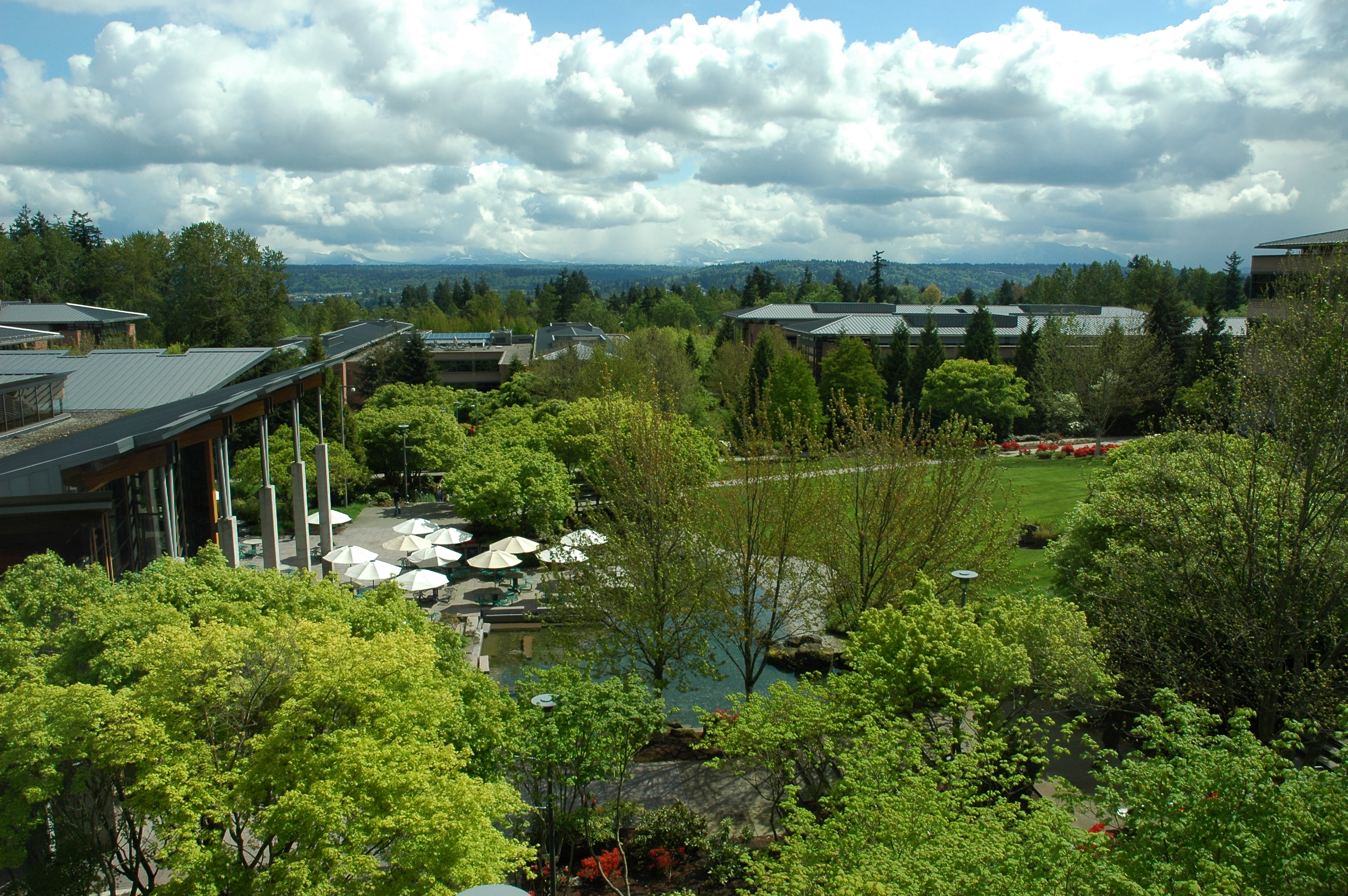 View of the Red West cafeteria